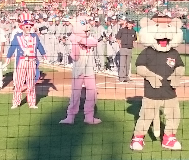 ValleyCats mascots Sammy (left), Ribbie (center), Southpaw (right)